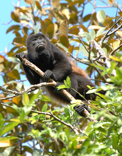 adult male mantled howler monkey (Alouatta paliatta) in Costa Rican Pacific Dry Forests